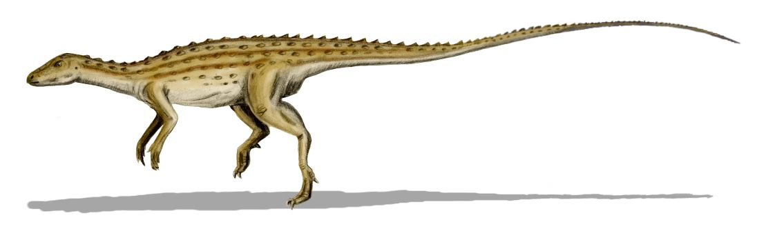 Scutellosaurus lawleri, an ornithischian from the Early Jurassic of North America, pencil drawing, digital coloring